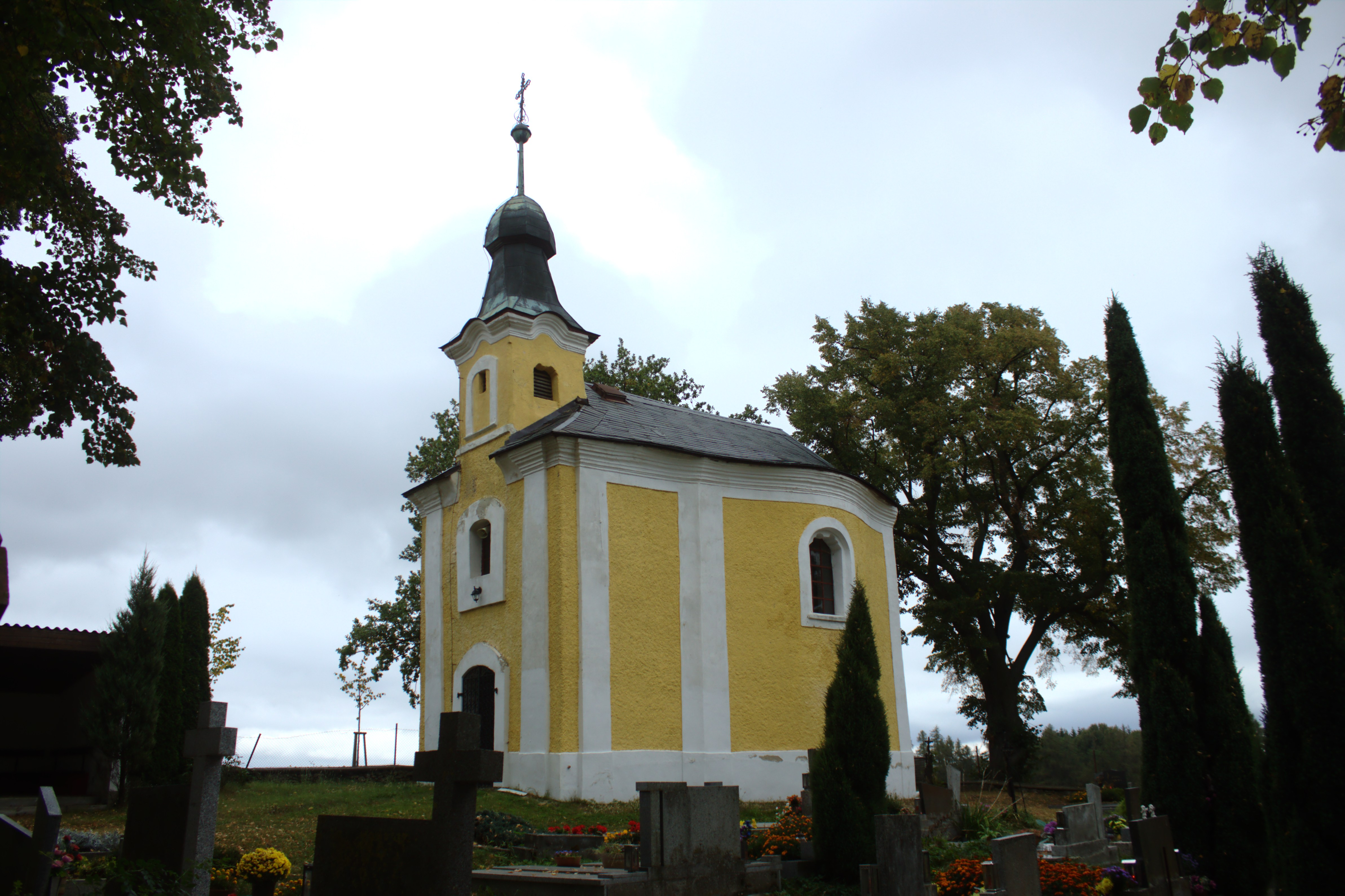 St. Anne church with a cemetery situated near the villages of Vyklantice and Petrovsko